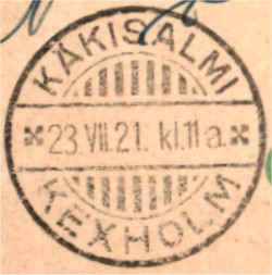 Postal cancellation of the city of Käkisalmi, Finland (now Priozersk, Leningrad Oblast, Russia) on July 23, 1921